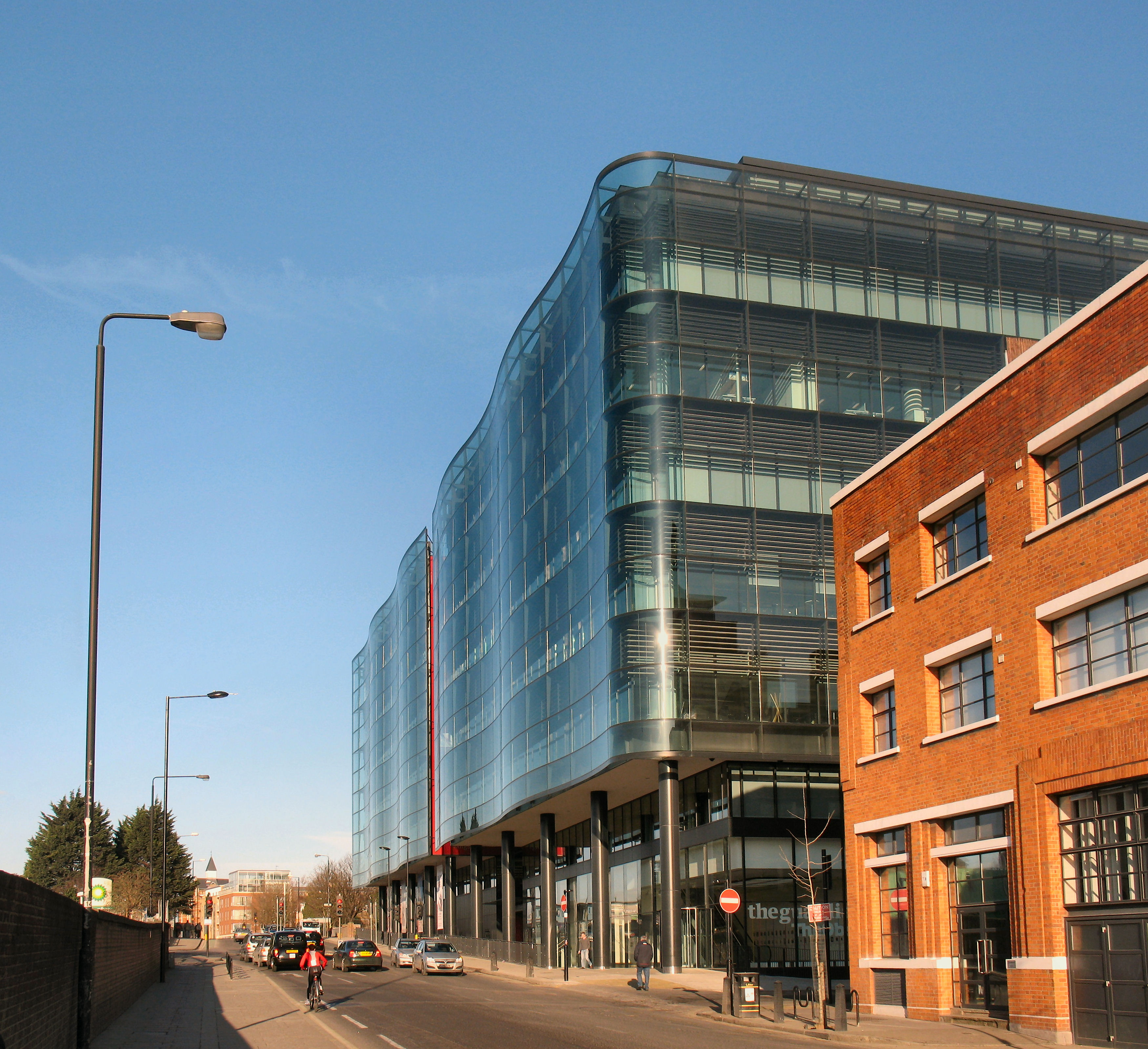 Kings Place from York Way Original description: 3 January 2009 - approaching the start of our walk along Regent's Canal. Kings Place is on the right. From this and this photo you can begin to see how the ground plan of the building is two rectangles and a cylinder, linked by internal 'bridges'.